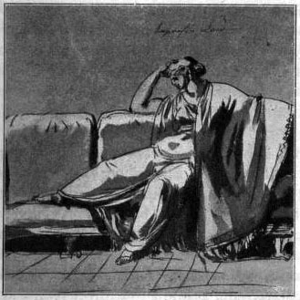 Eufrosyne Löf, Swedish actress and dancer Text top right